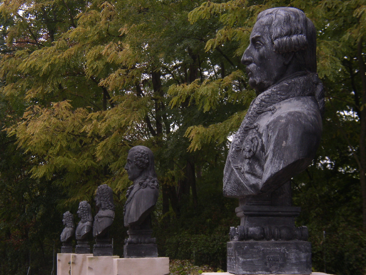 Memorial Site Heldenberg: Alley of heroes (Austrian generals)